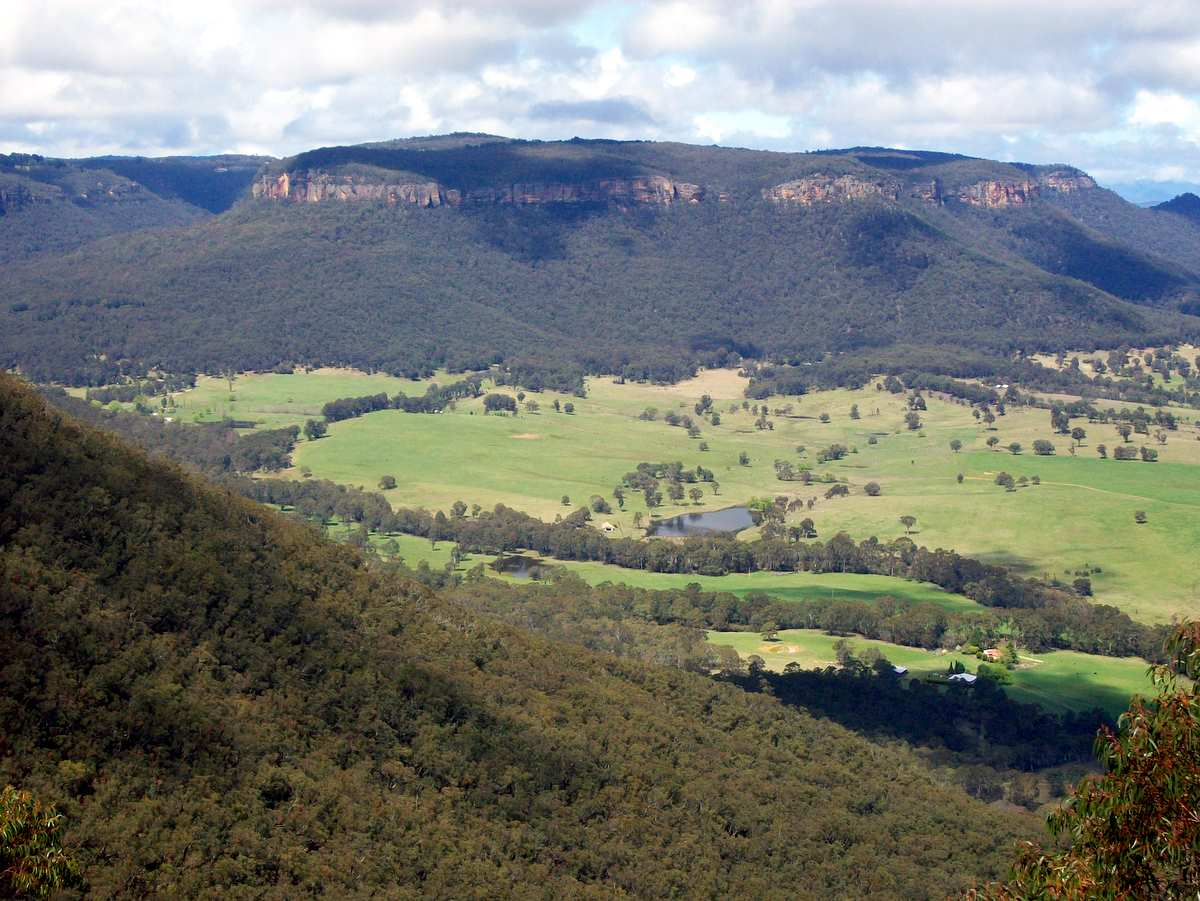 view from Pulpit Rock, Mount Piddington, Blue Mountains, Australia